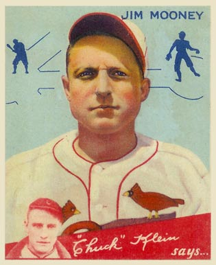 1934 Goudey baseball card of Jim Mooney of the St. Louis Cardinals #84. PD-not-renewed